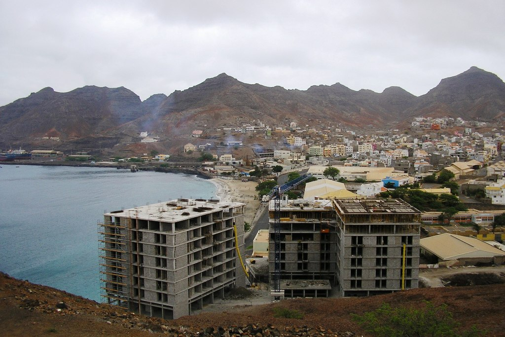 Lajinha beach in Mindelo town, São Vicente island, Cape Verde